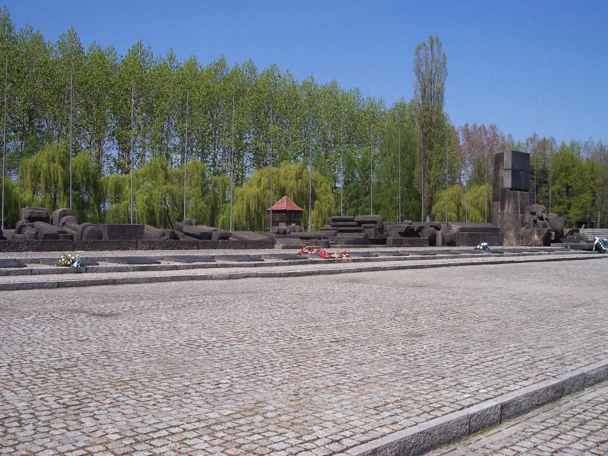 Concentration camp Auschwitz II Birkenau